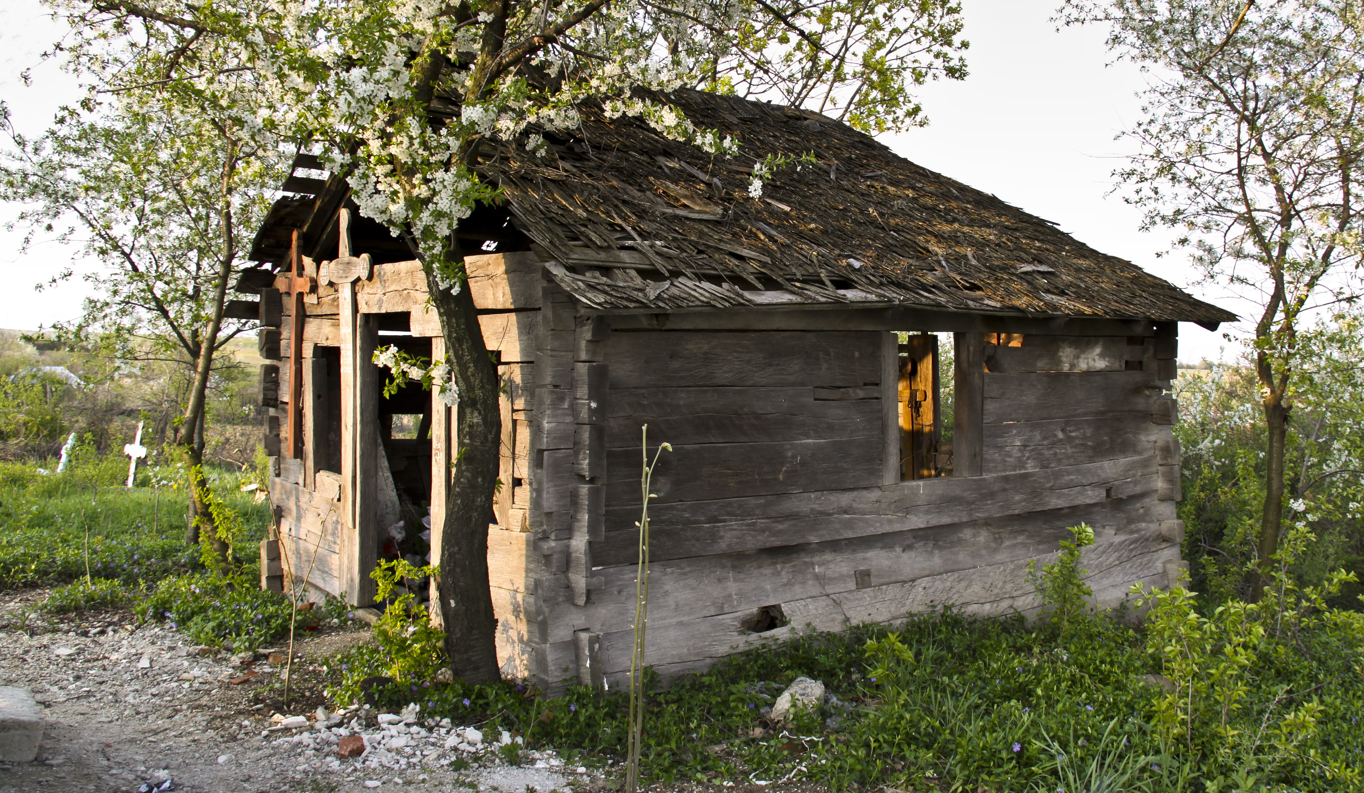 Optăşani, Olt county, Romania: the wooden chapel.